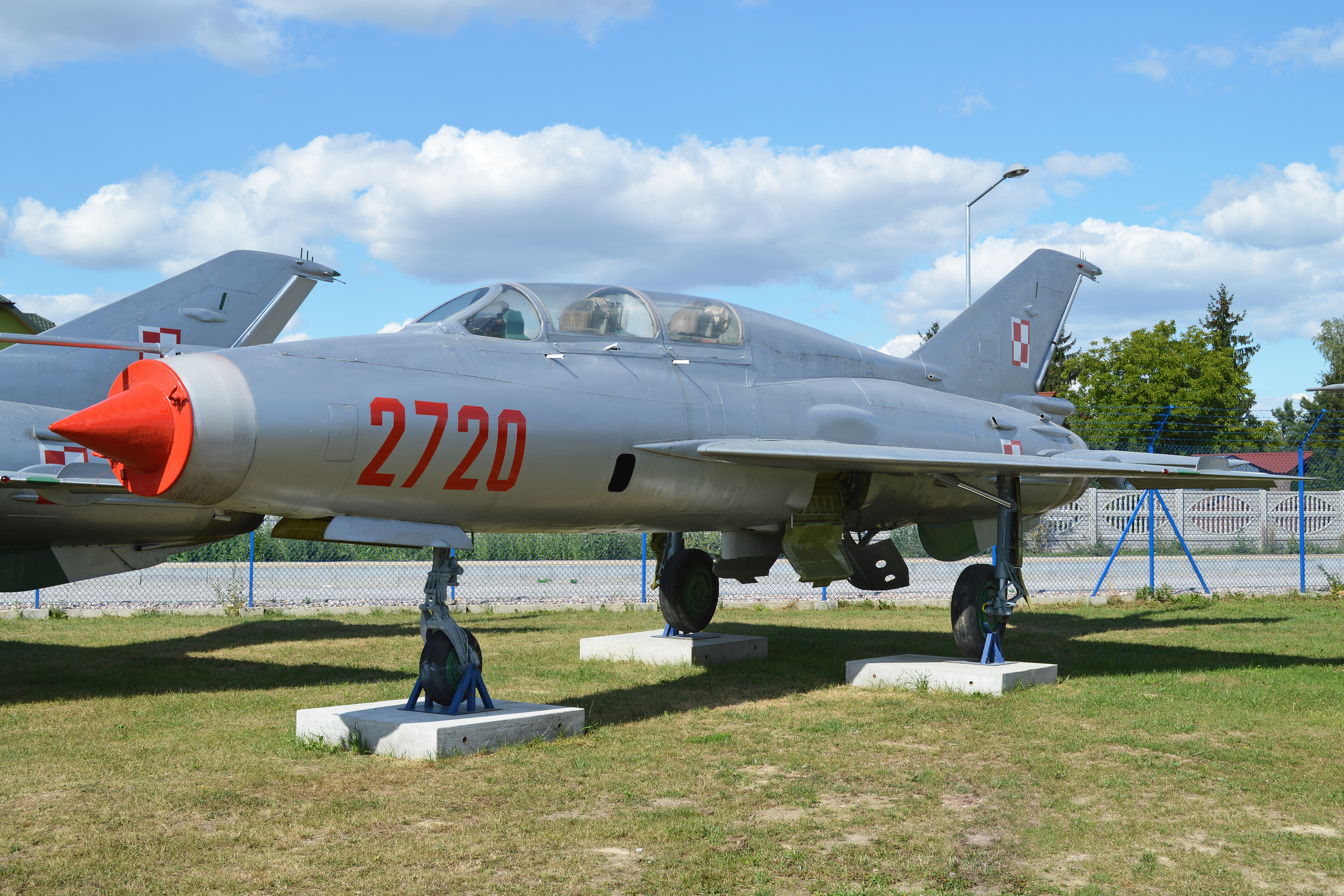 This two-seat trainer variant was based on the 1st generation 'F-13', but had the larger fin from the 2nd generation 'PFM' version. It's NATO codename was 'Mongol-B'. c/n 662720. On display at the Muzeum Sit Powietrznych. Deblin, Poland. 25-8-2013